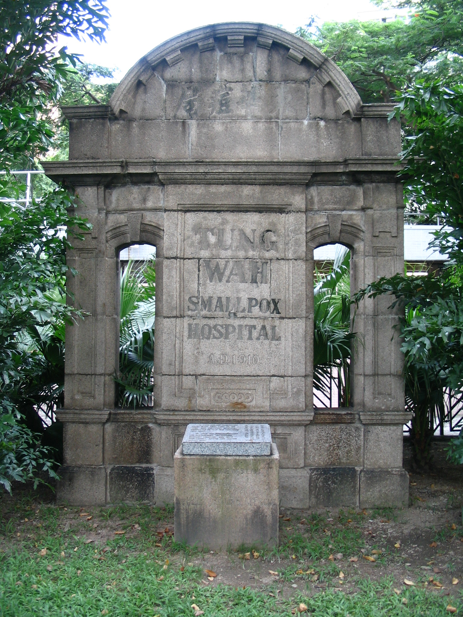 Photo of Tung Wah Smallpox Hospital